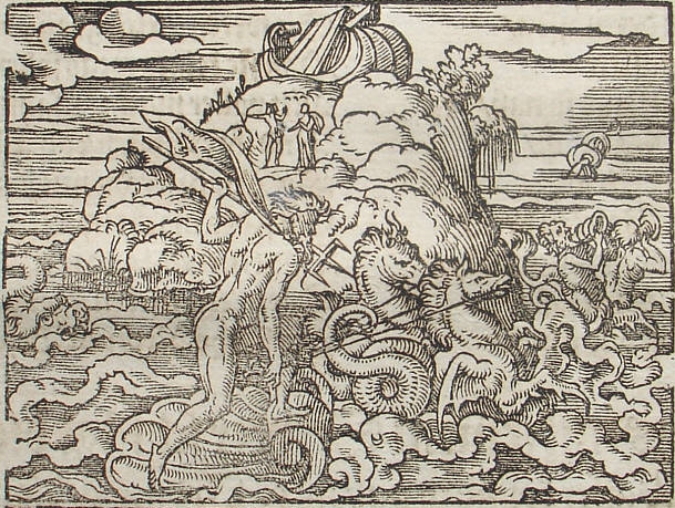 Neptune, king of waters. Engraving by Virgil Solis for Ovid's Metamorphoses Book I, 330-347. Fol. 6v, image 10.